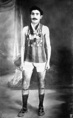 Francisco Lazaro, Olympic marathon runner